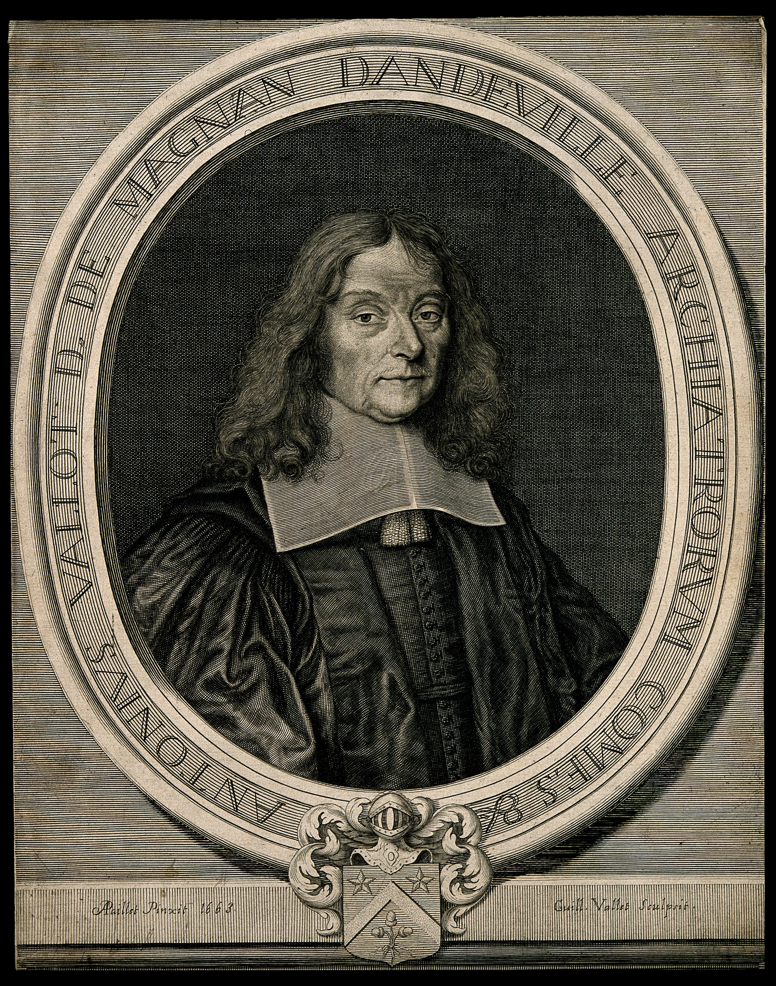 Antoine Vallot. Line engraving by G. Vallet after A. Paillet, 1663. Iconographic Collections Keywords: portrait prints; Antoine Vallot; engravings